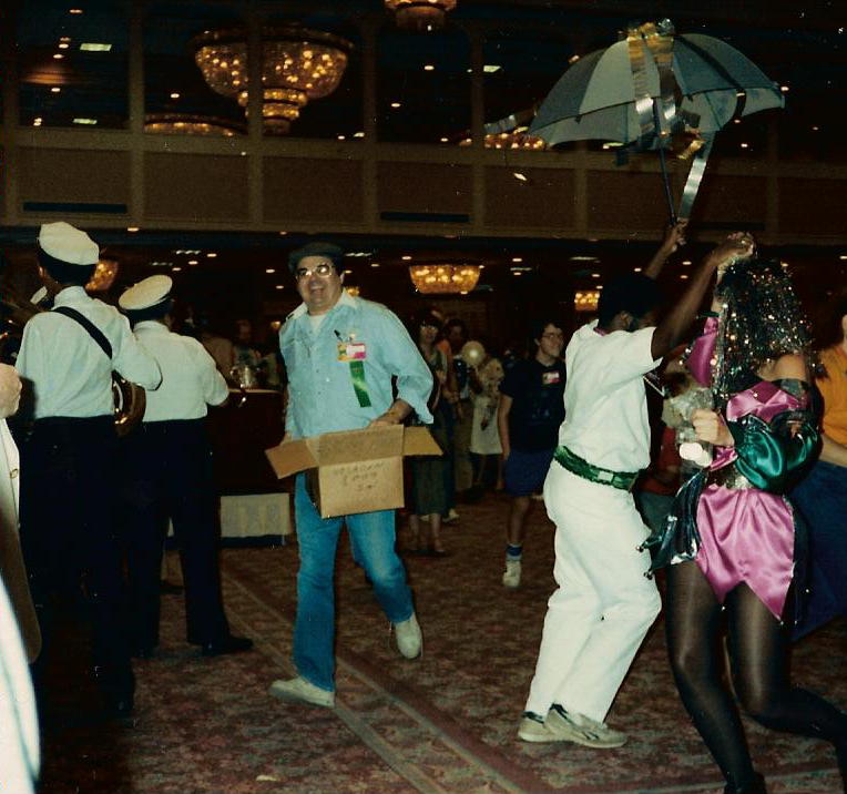 Picture of Guy H. Lillian III taken at Nolacon II at New Orleans. He is carrying a box of party supplies in the opening ceremonies.